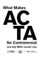 Campaign against ACTA